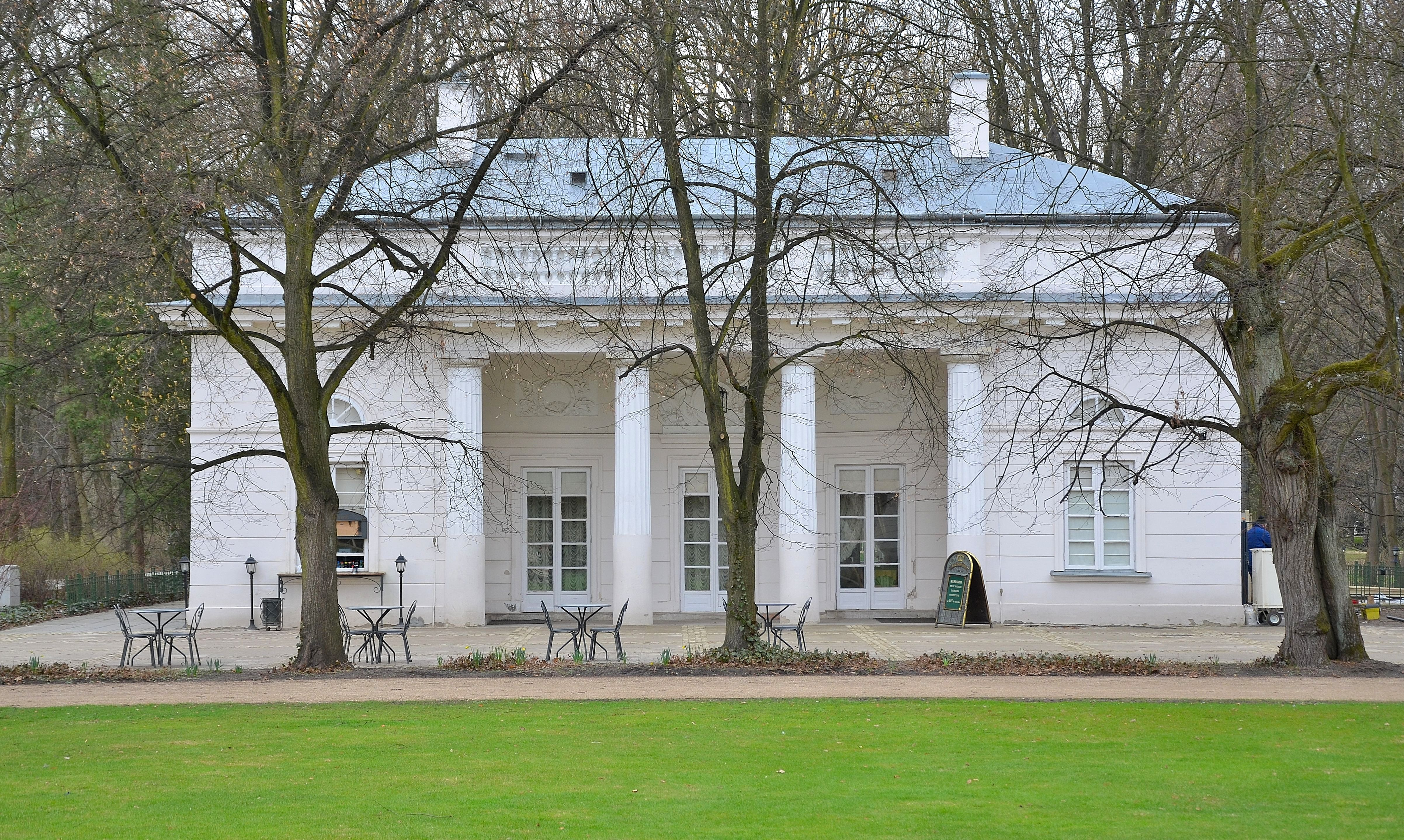 New Guardhouse in Łazienki Garden